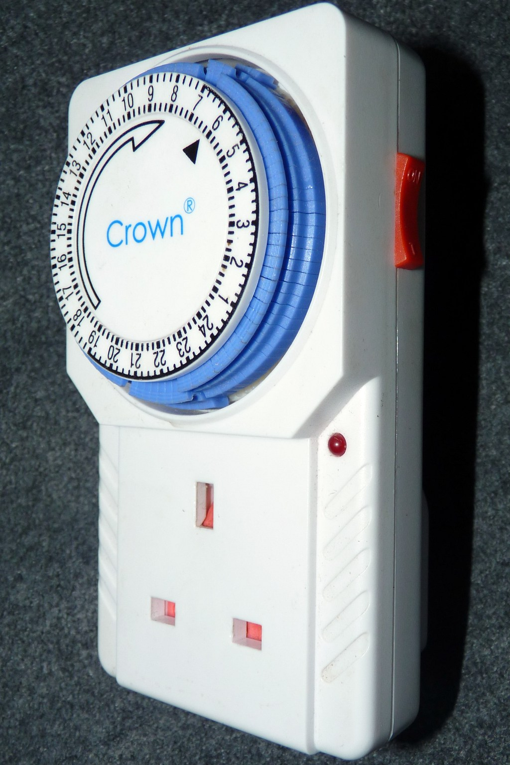 BS 1363 (UK) time switch showing the current time as 6:15 a.m. (06:15), and set to turn on from 7 to 7:45 a.m. (07:00 to 07:45) and 8 to 10 p.m. (20:00 to 22:00).